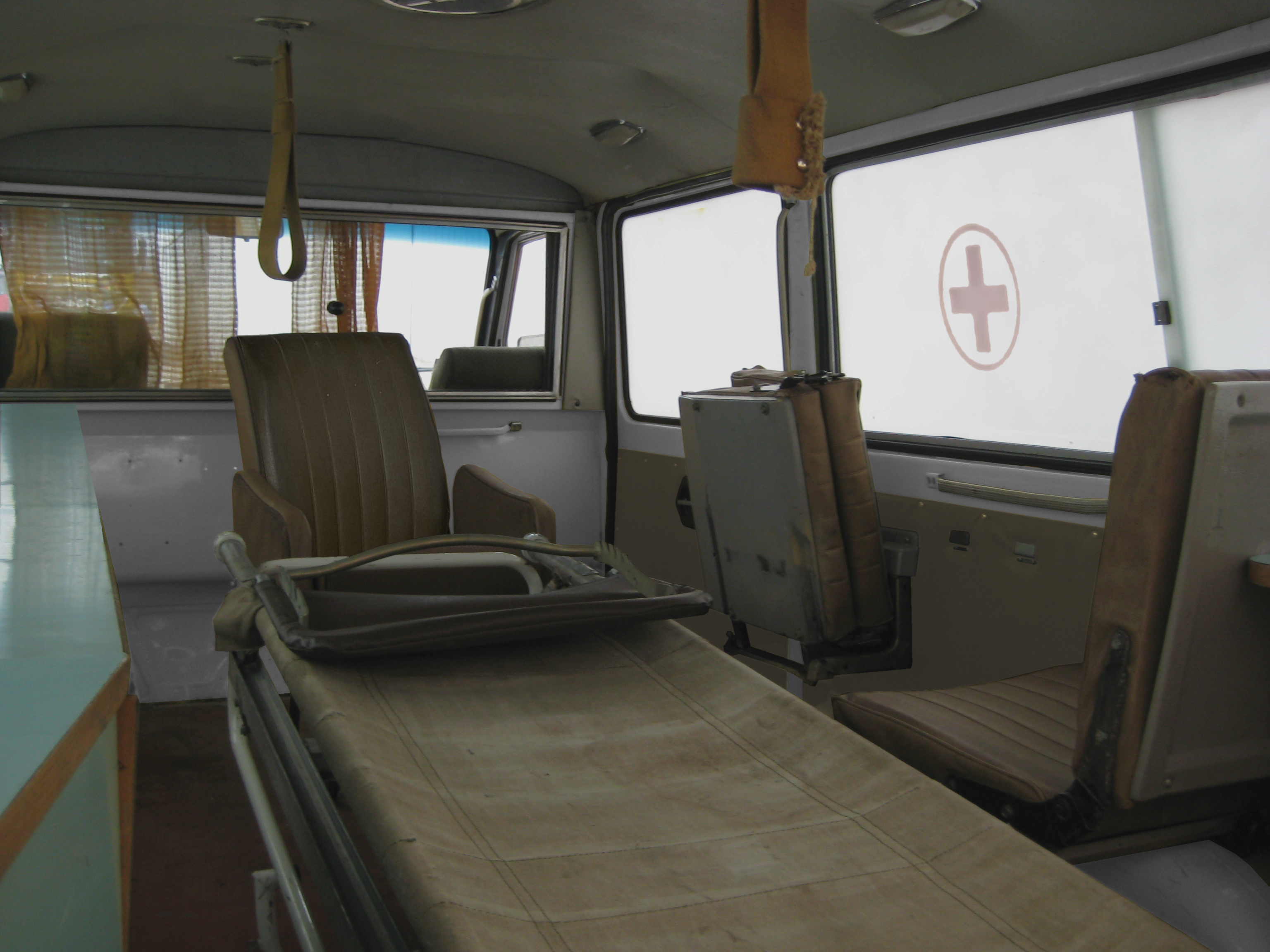 RAF-22031-01 vehicle interior